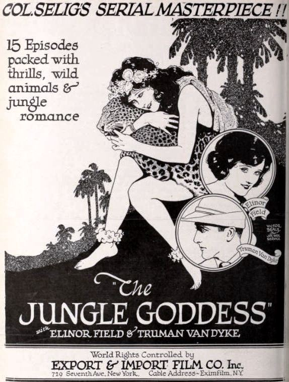 Advertisement for the American adventure film serial The Jungle Goddess (1922) with Elinor Field and Truman Van Dyke, on page 18 of the December 24, 1921 Exhibitors Herald.